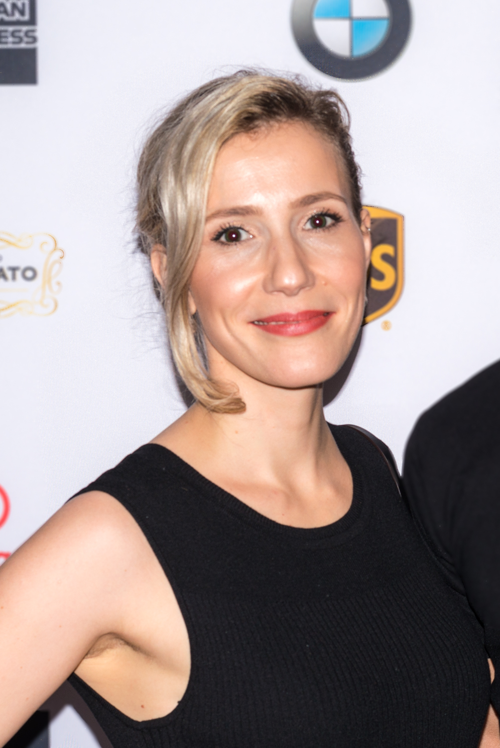 Sandra Redlaff before the award ceremony at the Stockholm International Film Festival on November 16, 2018.